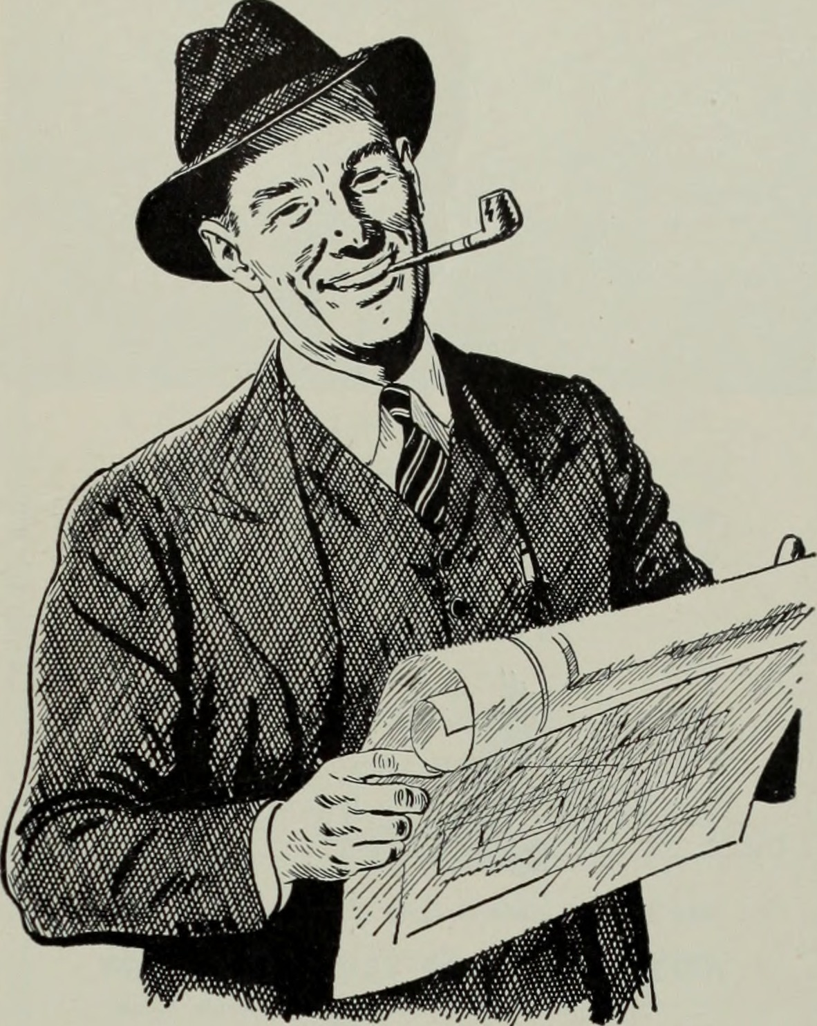 Title: Architect and engineer Year: 1905 (1900s) Authors: Subjects: Architecture Architecture Architecture Building Publisher: San Francisco : Architect and Engineer, Inc Text Appearing Before Image: ction which will be of material help toengineers and contractors. STRUCTURAL ENGINEERS ASSOCIATIONOF SAN FRANCISCO Precast concrete was discussed in detail at theApril meeting of the Structural Engineers Associa-tion at the Engineers Club. Principal speaker wasWillard Ashton, of the Otto Buehner firm in SaltLake City. He discussed the development of ornamentalconcrete work to supplant use of cut stone, andshowed samples of Mo-Sais various color andtexture finishes. We believe that it offers to the engineers andarchitects a new field of design, he declared. Itcan give a larger scale in the field in which heworks and also a variety of colors. The architectural slab is lightweight in compari-son to stone, and more economical to ship, he said.Its function is not confined to new construction,but it is also valuable as a facing for remodelingjobs. It is adaptable to interior work as well asexterior. Technical slides were shown depicting variousstages in the manufacture of slabs, and showing Text Appearing After Image: Plans for built-intelephone outlets now One sure way to provide for your clients comfortand convenience for years to come is to plan forbuilt-in telephone outlets before construction starts. Heres why. The location of the tele-phone can be changed,or additional tele-phones added with-out drilling throughthe flooring or run-ning wires along base-boards. The convenience of well-placed telephone outletswill be appreciated yearafter year. And, built-in telephoneoutlets add little tobuilding costs . . . muchto building value. Call or dial your local Telephone Business Office.Ask for Architects and Builders Service. The Pacific Telephone and Telegraph Co.